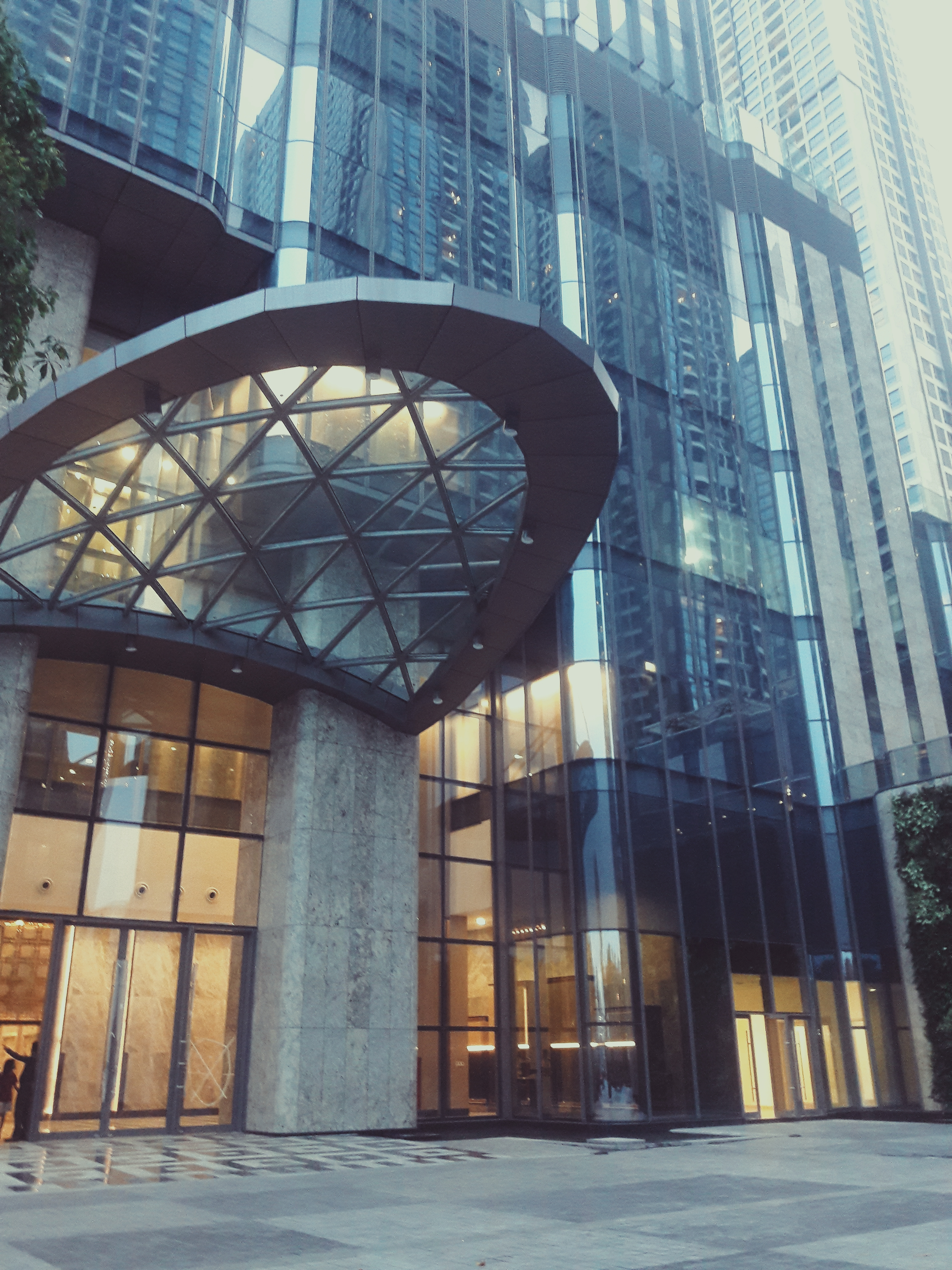 by Me